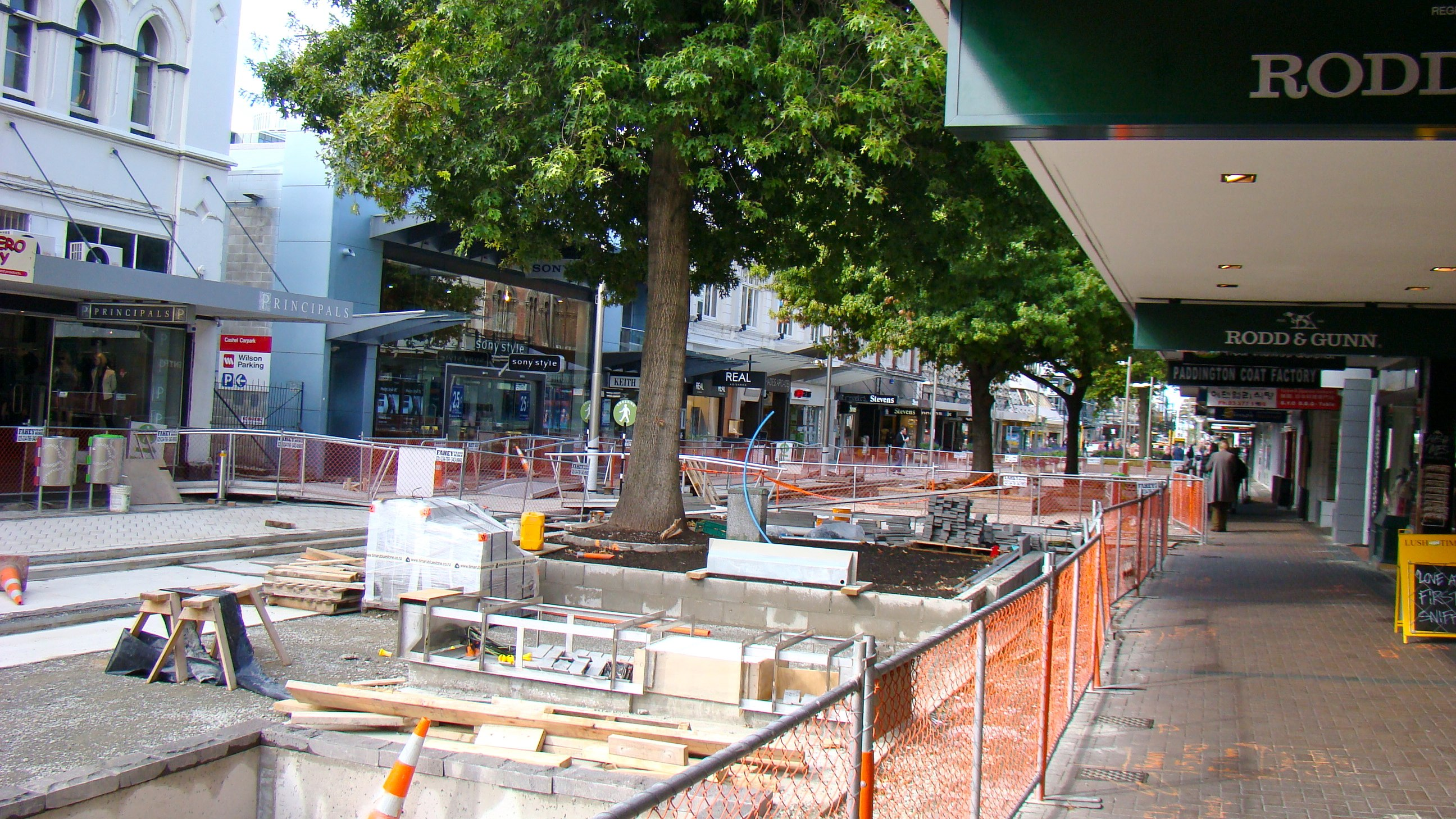 Installation of tram lines, 22 March 2009. The former Twentymen & Cousins Store is visible on the left.